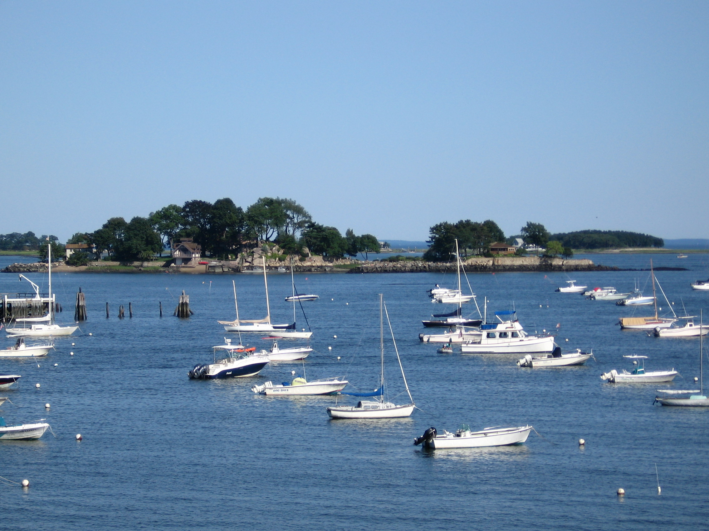 Tavern Island, one of the Norwalk Islands off the shore of Norwalk, Connecticut as seen from Buff Avenue in the Rowayton section of the city. Ram Island is behind it to the viewer's right and Little Tavern Island is behind it to the viewer's left.